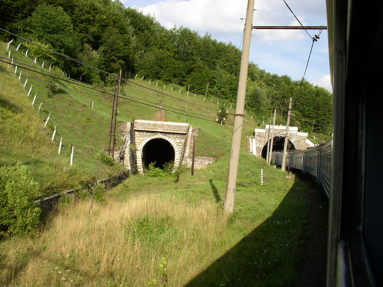 View from Kamianka-Buzka-Skole-Volovets railroad, Ukraine. Old unused and used rail tunnel (near 1641 km) east of Свалівка/Чурилово in Skotarske (Скотарське), Volovets Raion, Zakarpattia Oblast.